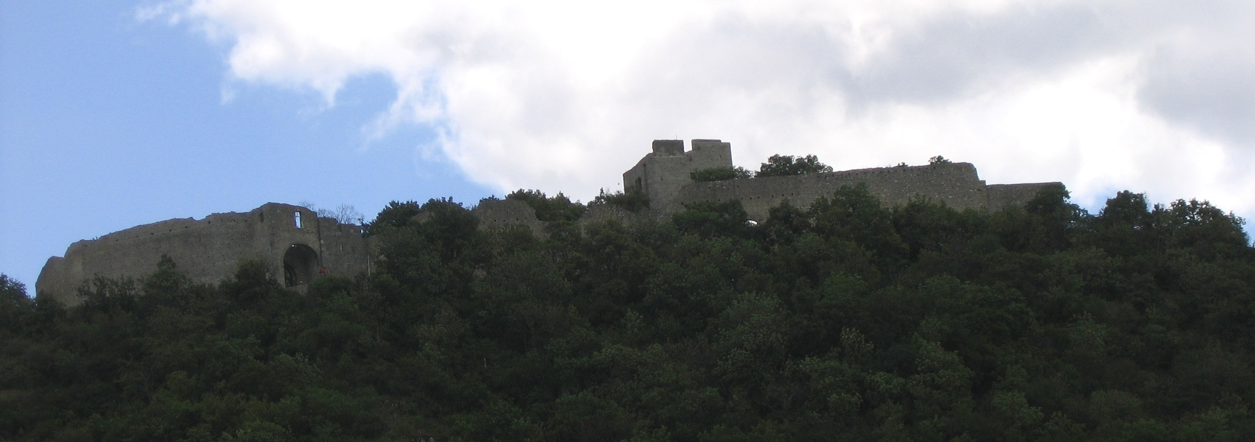 Hainburg, Austria, castle